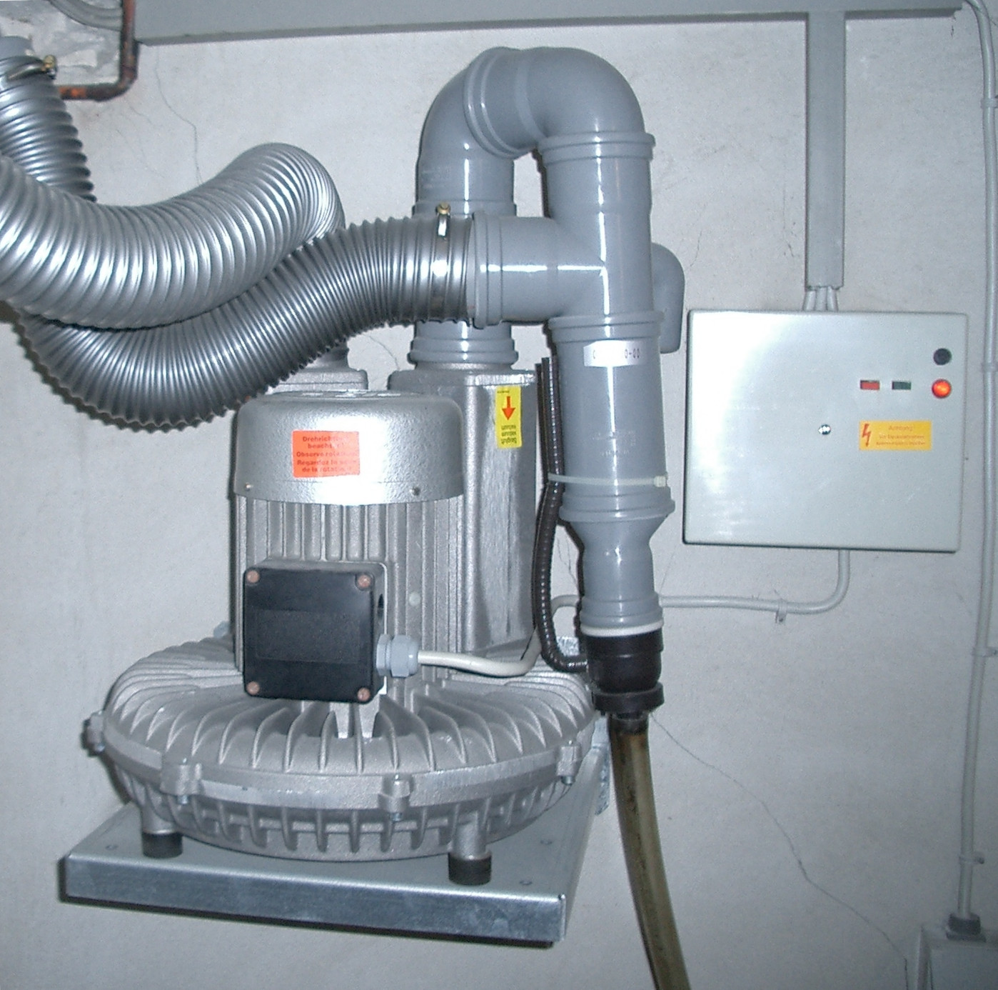 Suction device for use in dentistry